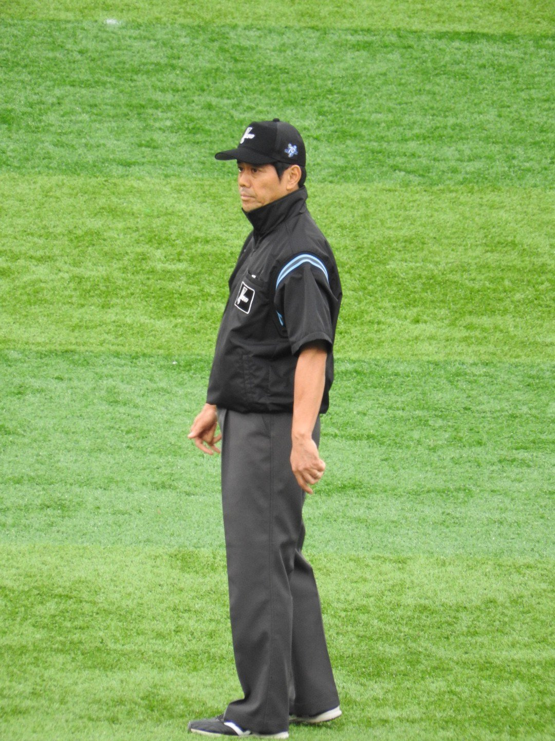 2019年10月6日横浜スタジアムにて